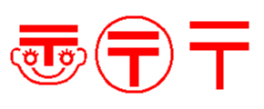 Several versions of the service mark of the postal system in Japan: 〠 U+3020, 〶 U+3036, 〒 U+3012